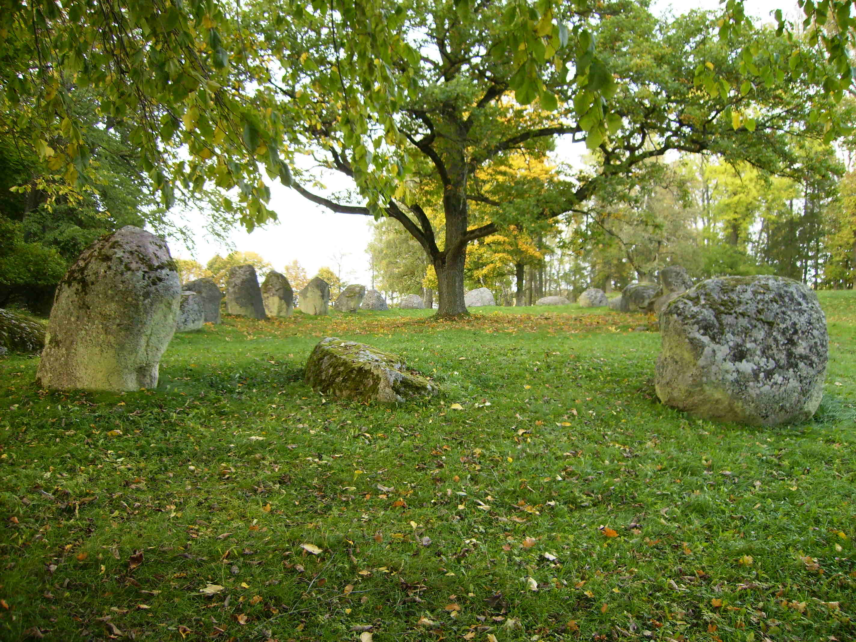 An oval-shaped or house-shaped stone circle called "Nässja skeppssättning" (i.e. "The Nässja stone ship") in Nässja Parish, Vadstena Municipality, Östergötland, Sweden. The oval stone circle measures 44×18 m and consists of 24 large stones, of which 10 are erected. The stone circle was excavated in 1953.